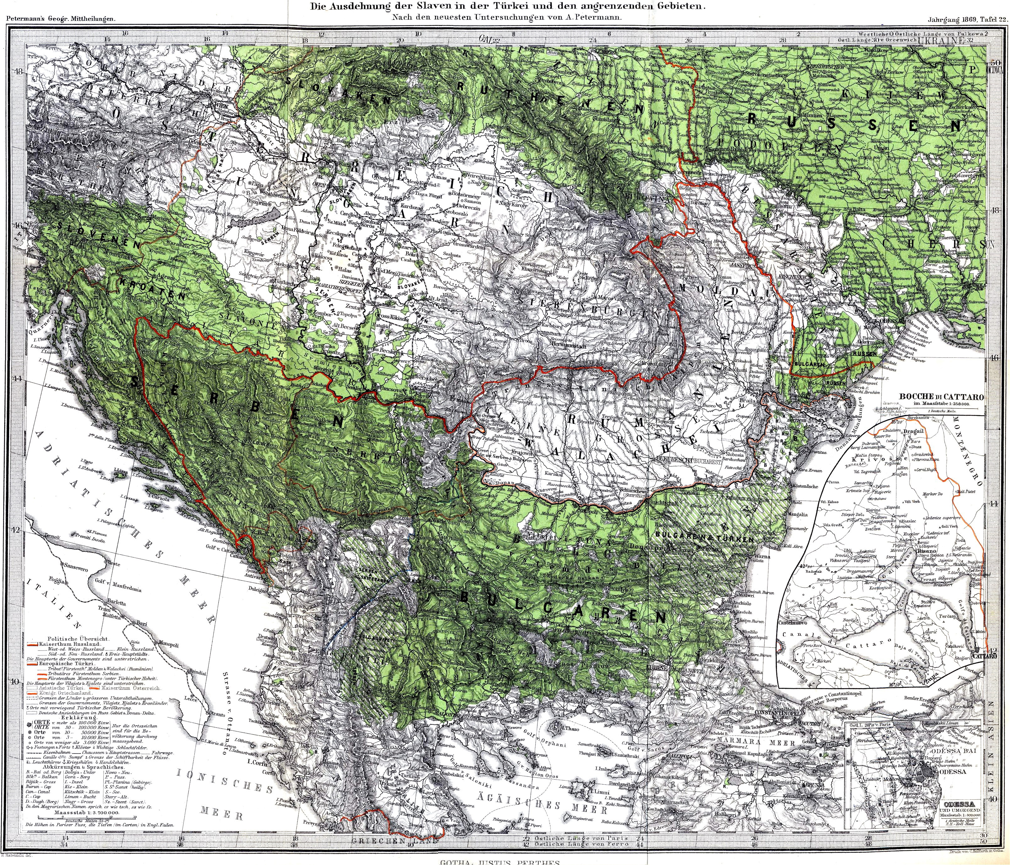 The Spread of Slavs in the Balkan Peninsula and the Carpathian-Danubian space, 1869. The author of this map was the renowned cartographer August Heinrich Petermann. According to Henry Robert Wilkinson (Maps and politics: a review of the ethnographic cartography of Macedonia, Liverpool, England : University Press, 1951, p. 55.) the author of the explanatory text to the map was the Croatian ethnographer prof. F. Bradashka.